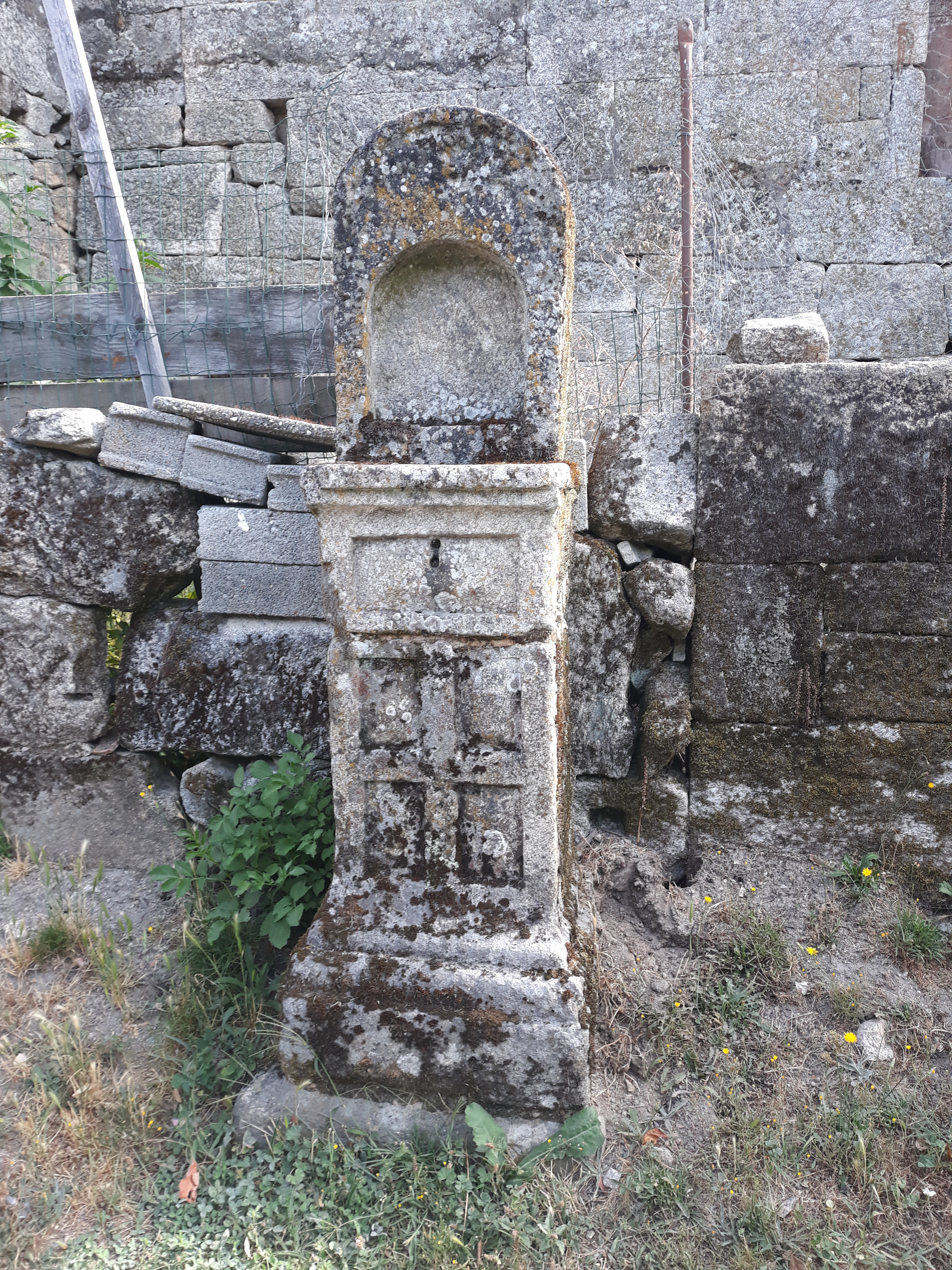 A wayside shrine to souls lost in Purgatory, in Sobreira, Ourense province, Galicia, Spain.